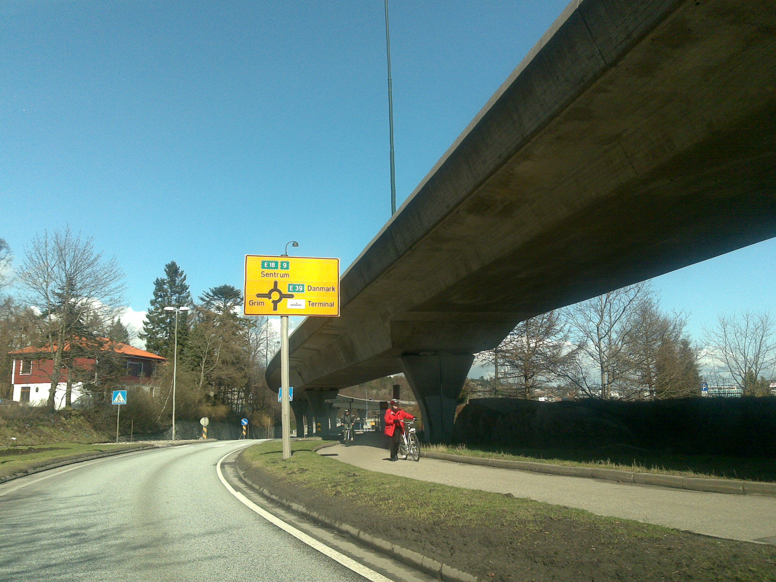 vesterbrua in Kristiansand, Norway